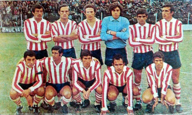 Team of Talleres (RE) that won the Primera C title.